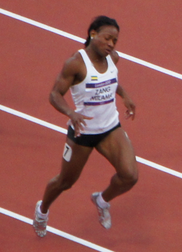 London 2012 Olympics Athletics